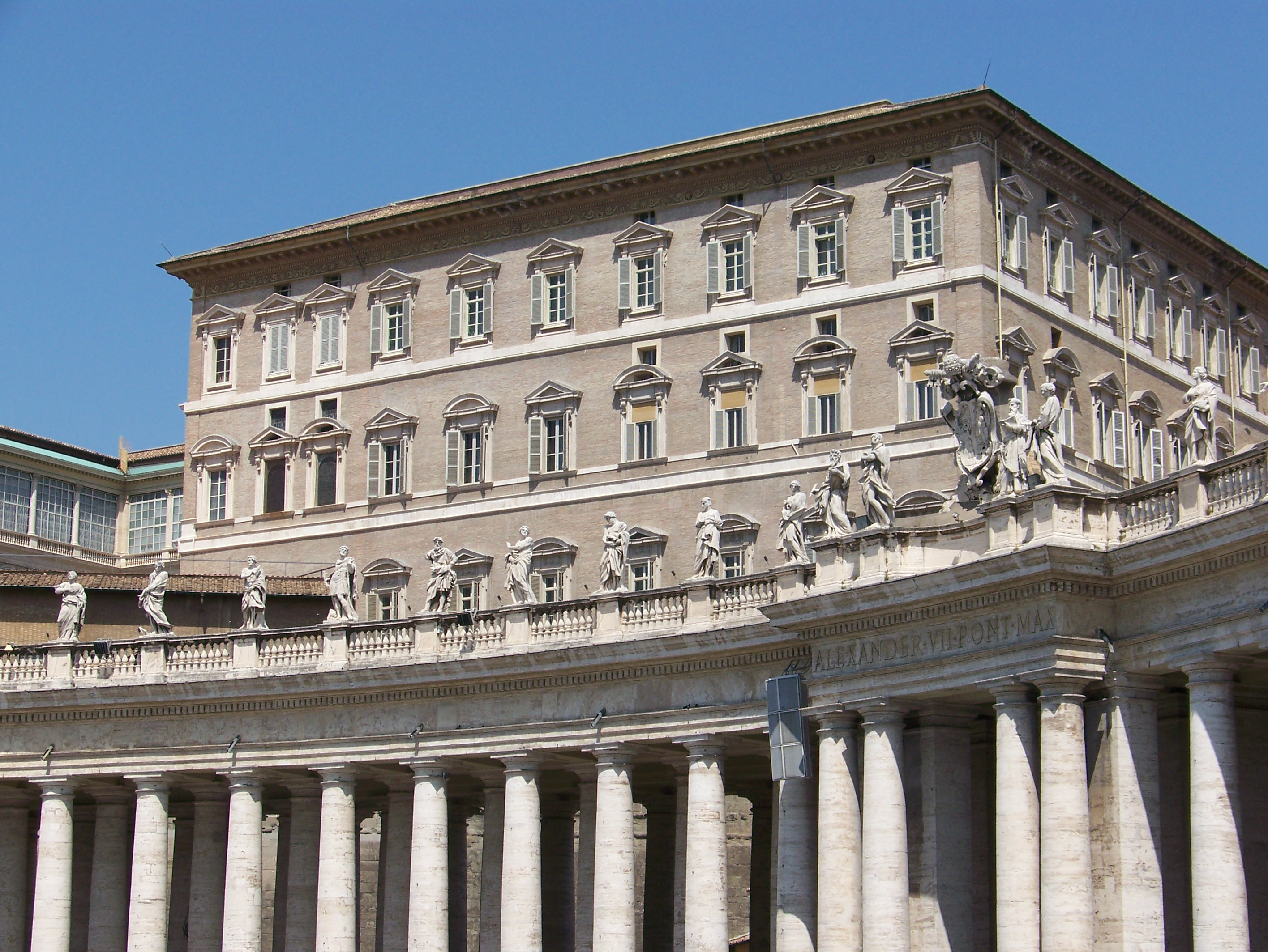 Papal apartments in the Palazzo Vaticano (Apostolic Palace). Taken in Vatican City, in May 2007 by Chris Sloan